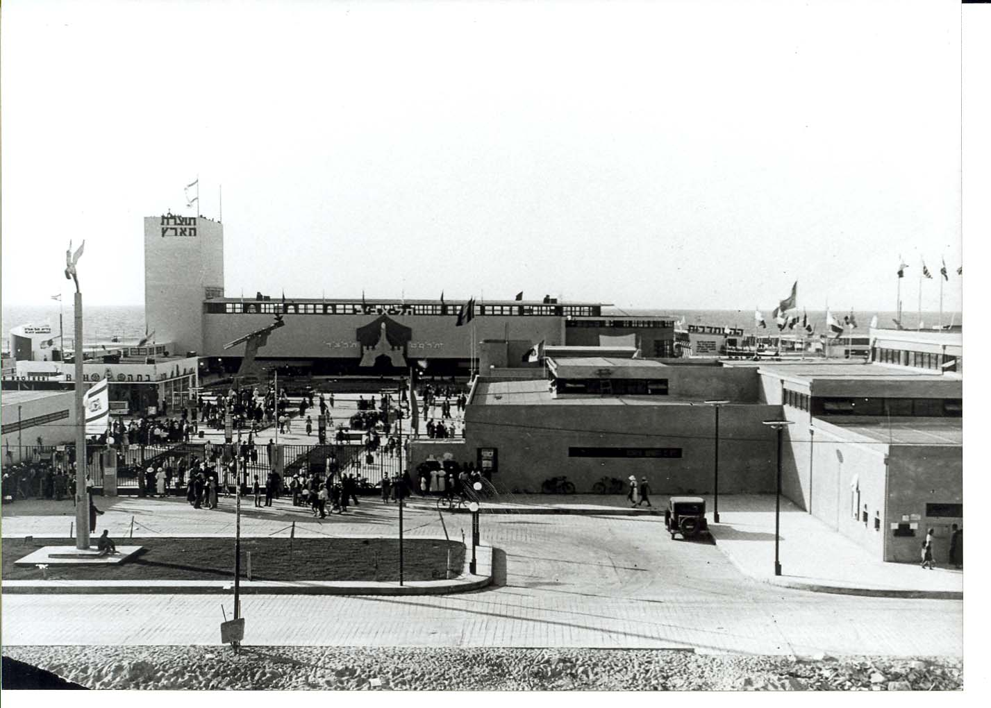 Events in Israel